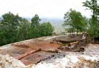 A view of the excavations